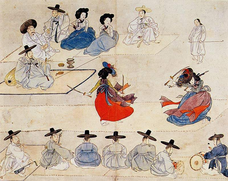 “Dancing together holding with two swords” (translit. title:Ssanggeum daemu) from Hyewon pungsokdo held by Gansong Art Museum in Seoul, South Korea